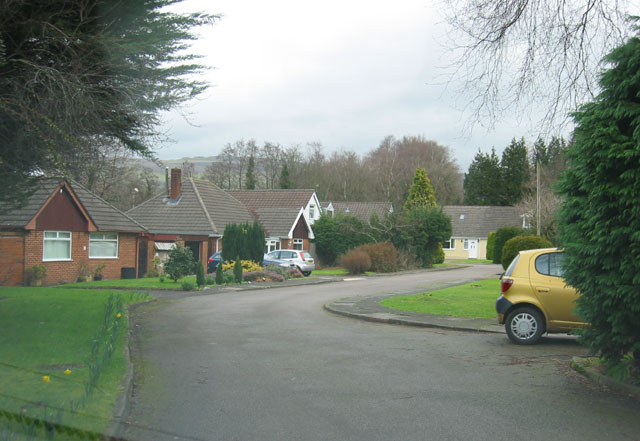 Waterloo Place Houses Built on the site of Waterloo Station - a halt on the Newport to Caerphilly Railway. Uniquely, because the double track railway was split either side of the valley here, only westbound trains used this station.